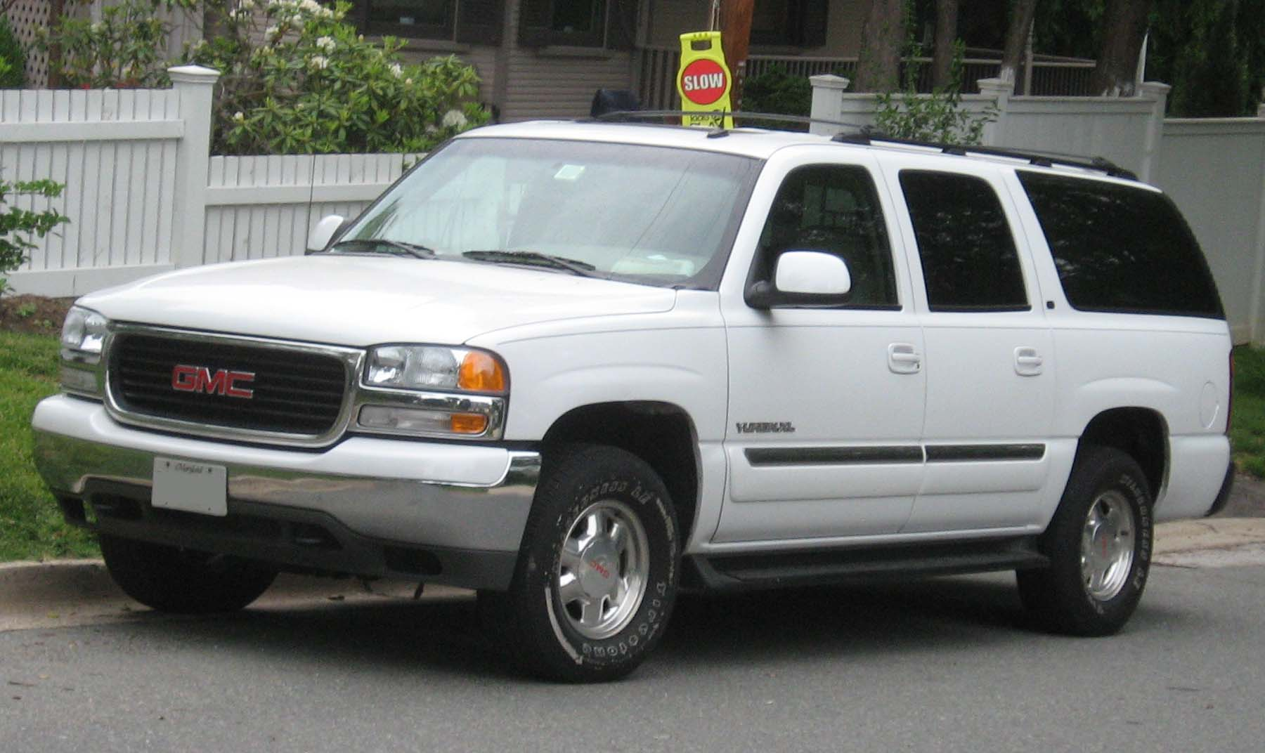 2000-2006 GMC Yukon XL photographed in USA.